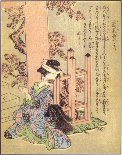 Haguro-bettari (歯黒べつたり) from the Ehon Hyaku monogatari (絵本百物語)